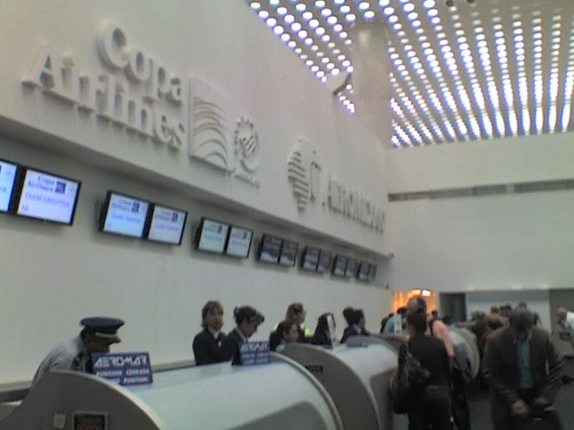 Terminal 2 of MEX